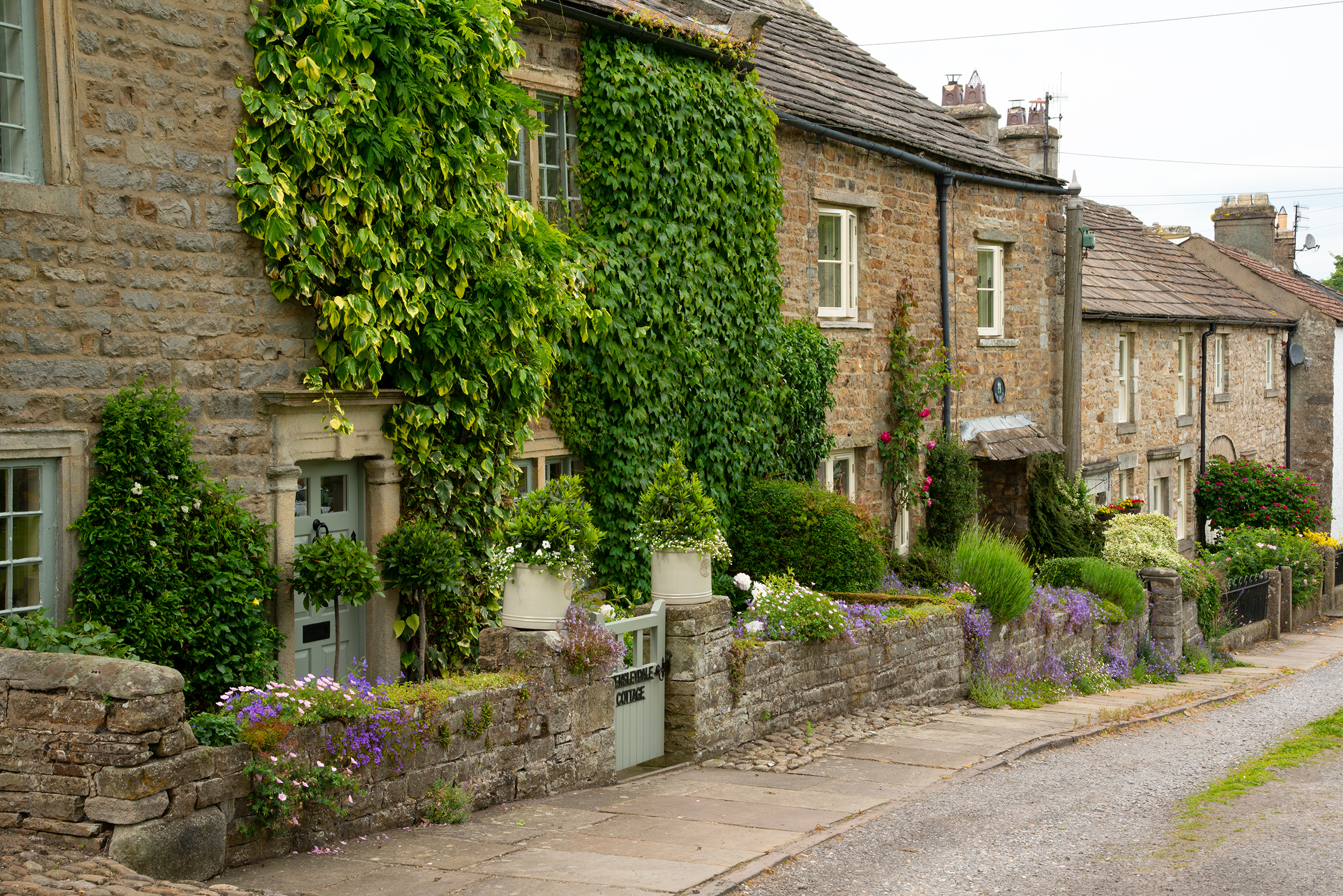 A less frequently photographed row of residences in West Bourton